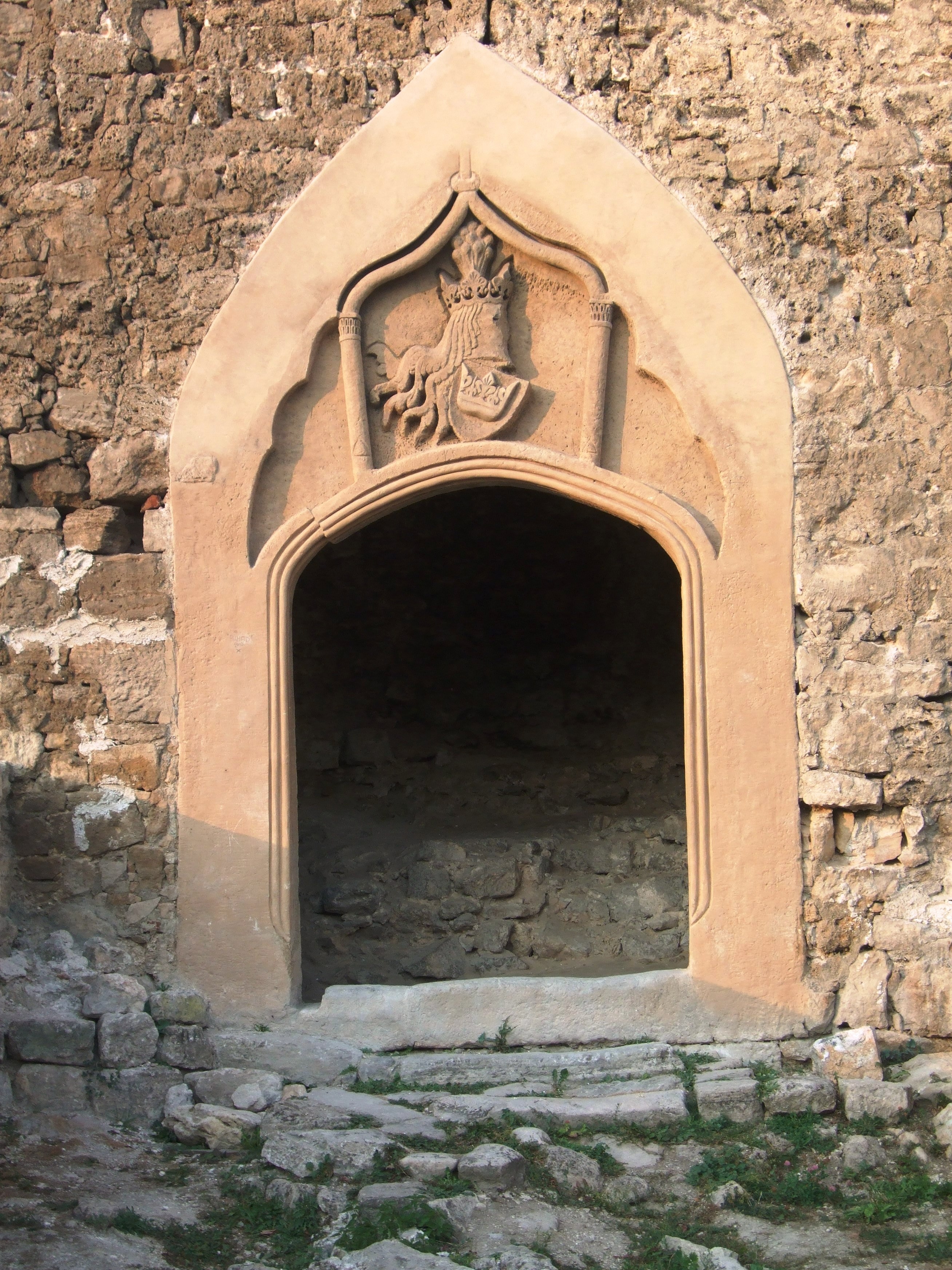 Own work.